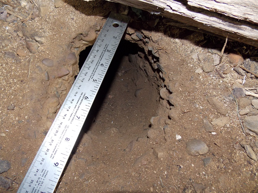 A groundhog burrow hole showing size.